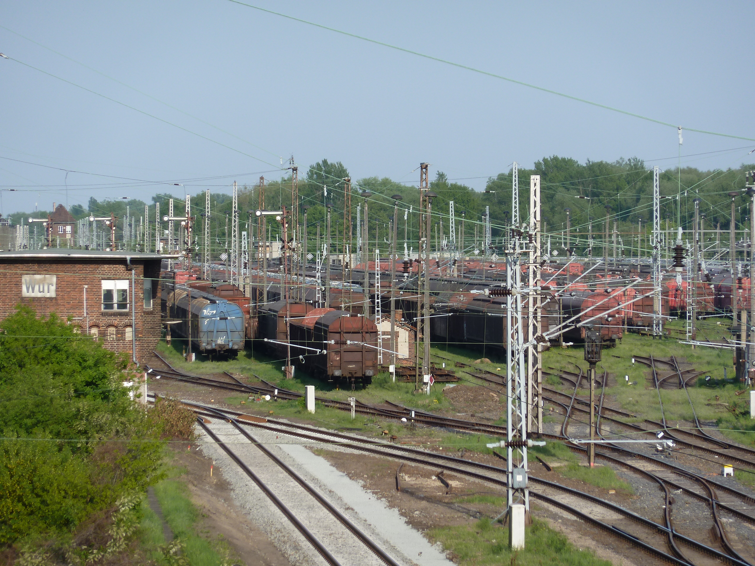 Wustermark Rangierbahnhof, view on yard